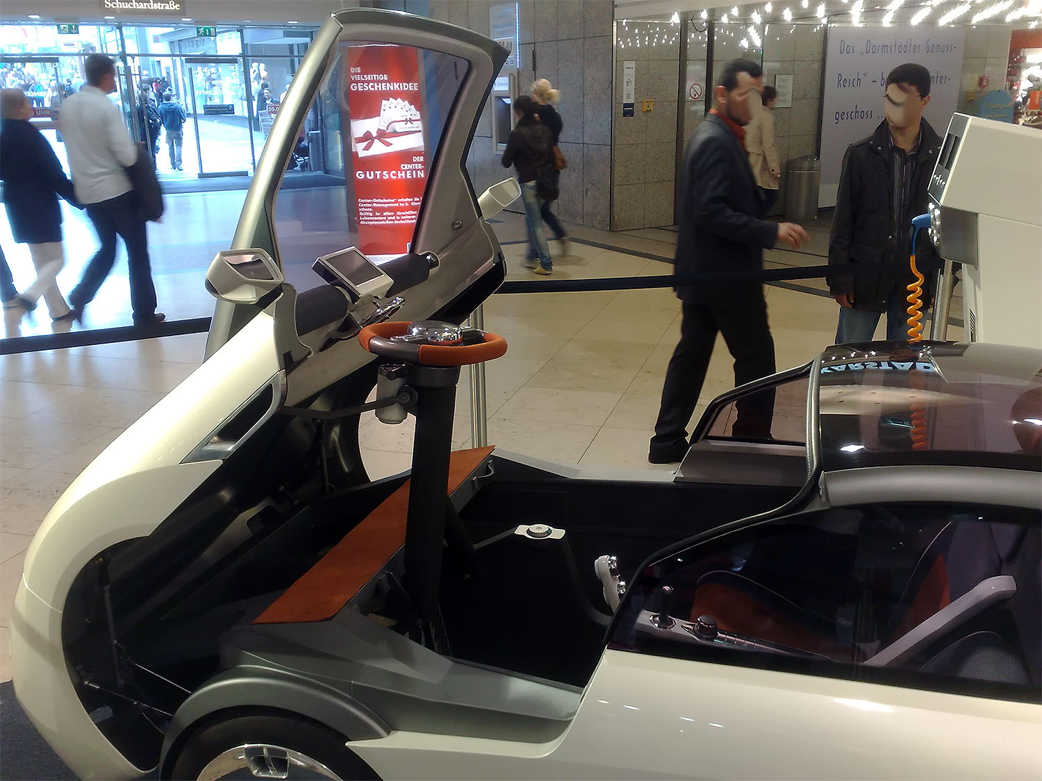 Loremo LS